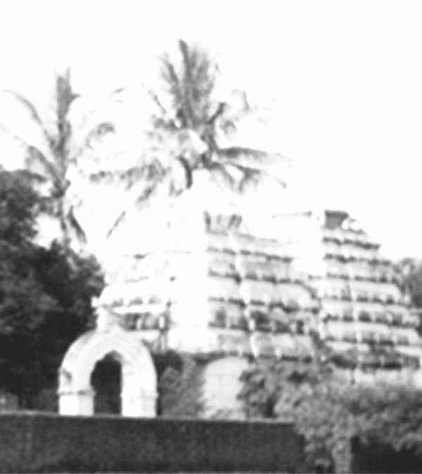 This is an image of the great Sekhareswar Temple taken from distance.